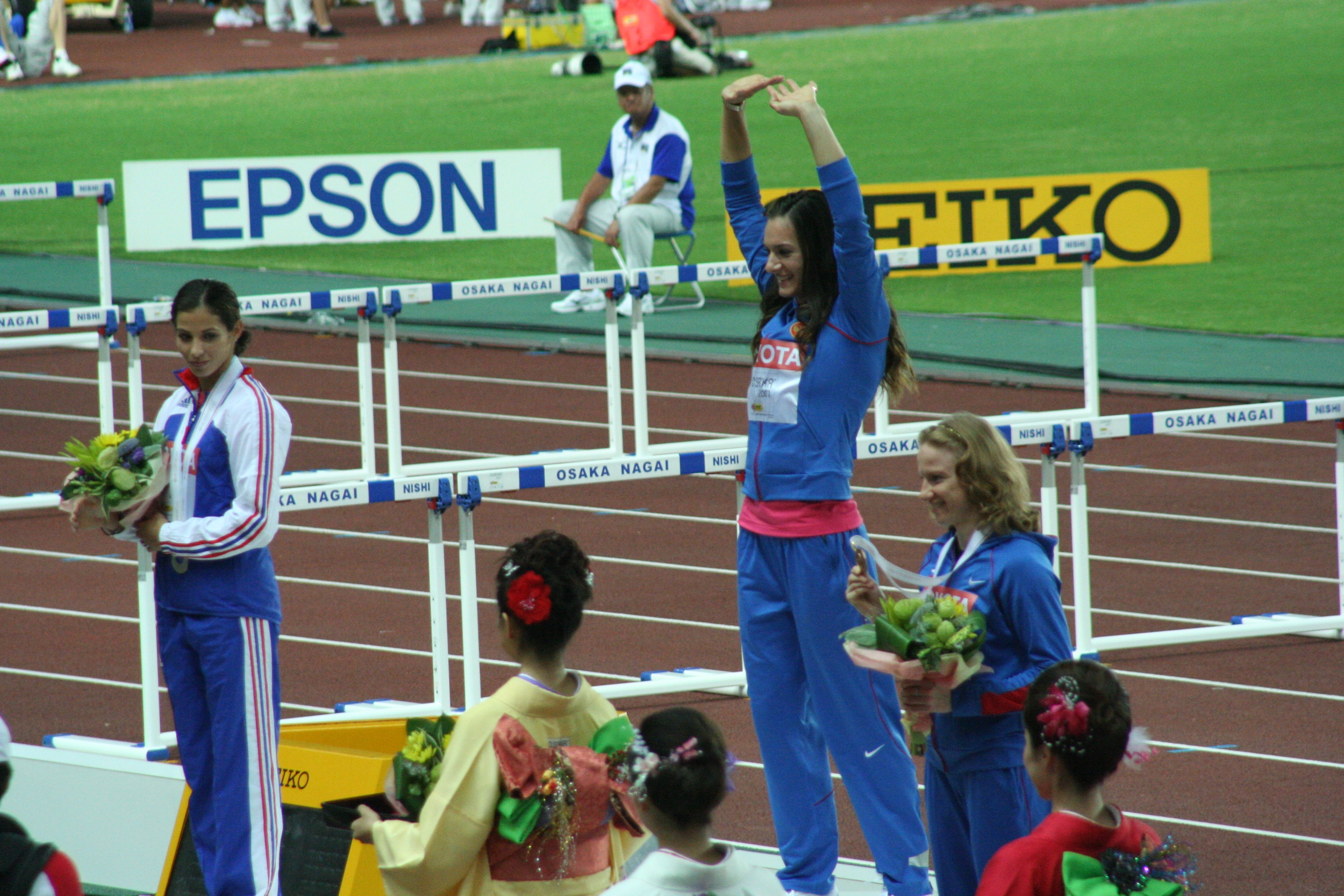 World Athletics Championships 2007 in Osaka - victory ceremony for the women's Pole Vault: Katerina Badurová, Yelena Isinbaeva, Svetlana Feofanova